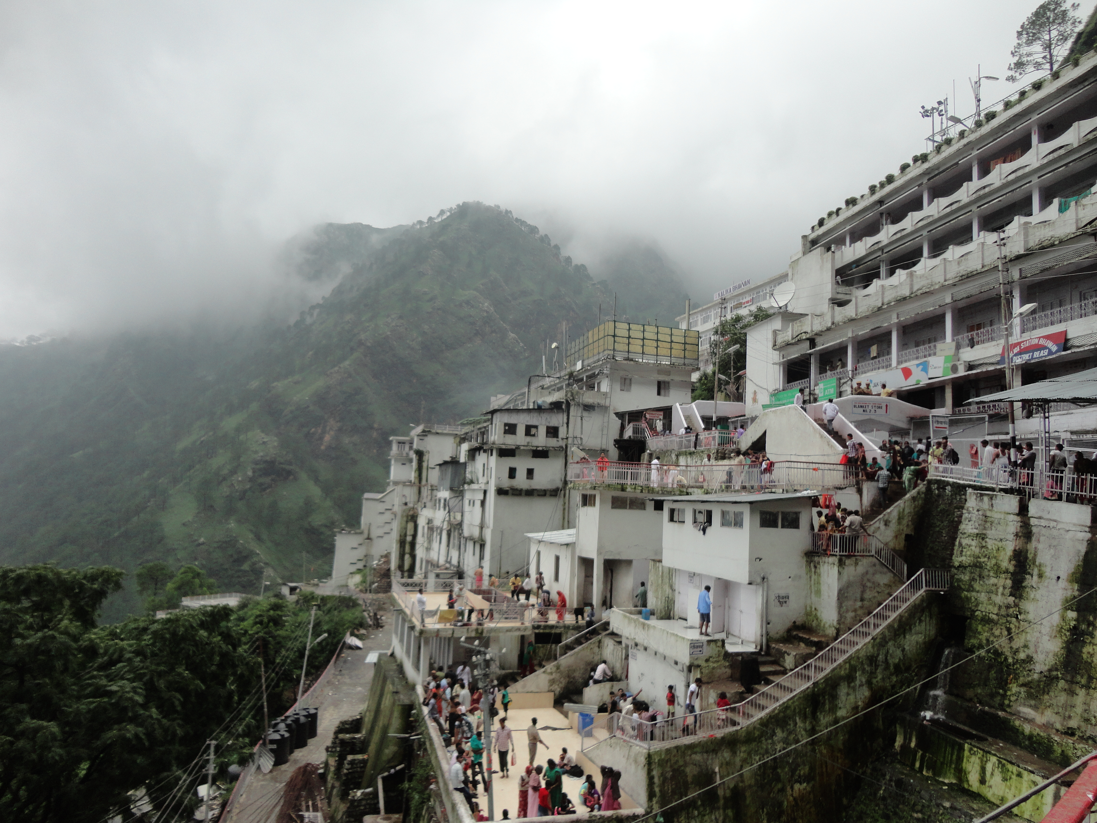 Bhawan at Vaishno Devi